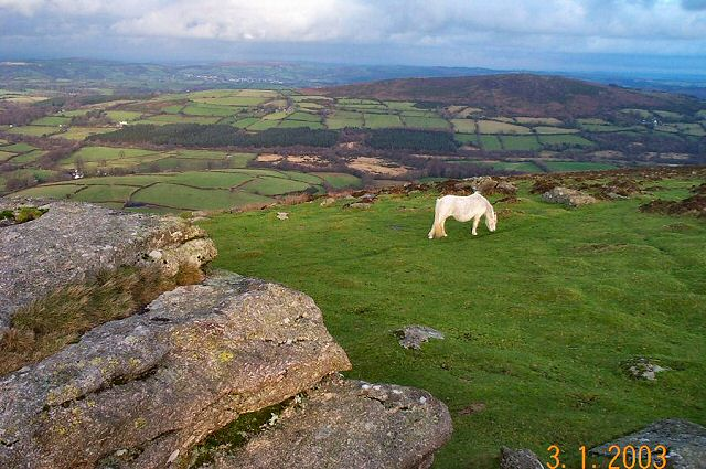 King Tor - Dartmoor. The view from King Tor with Easdon Tor on the right and the town of Moretonhampstead in the left distance.